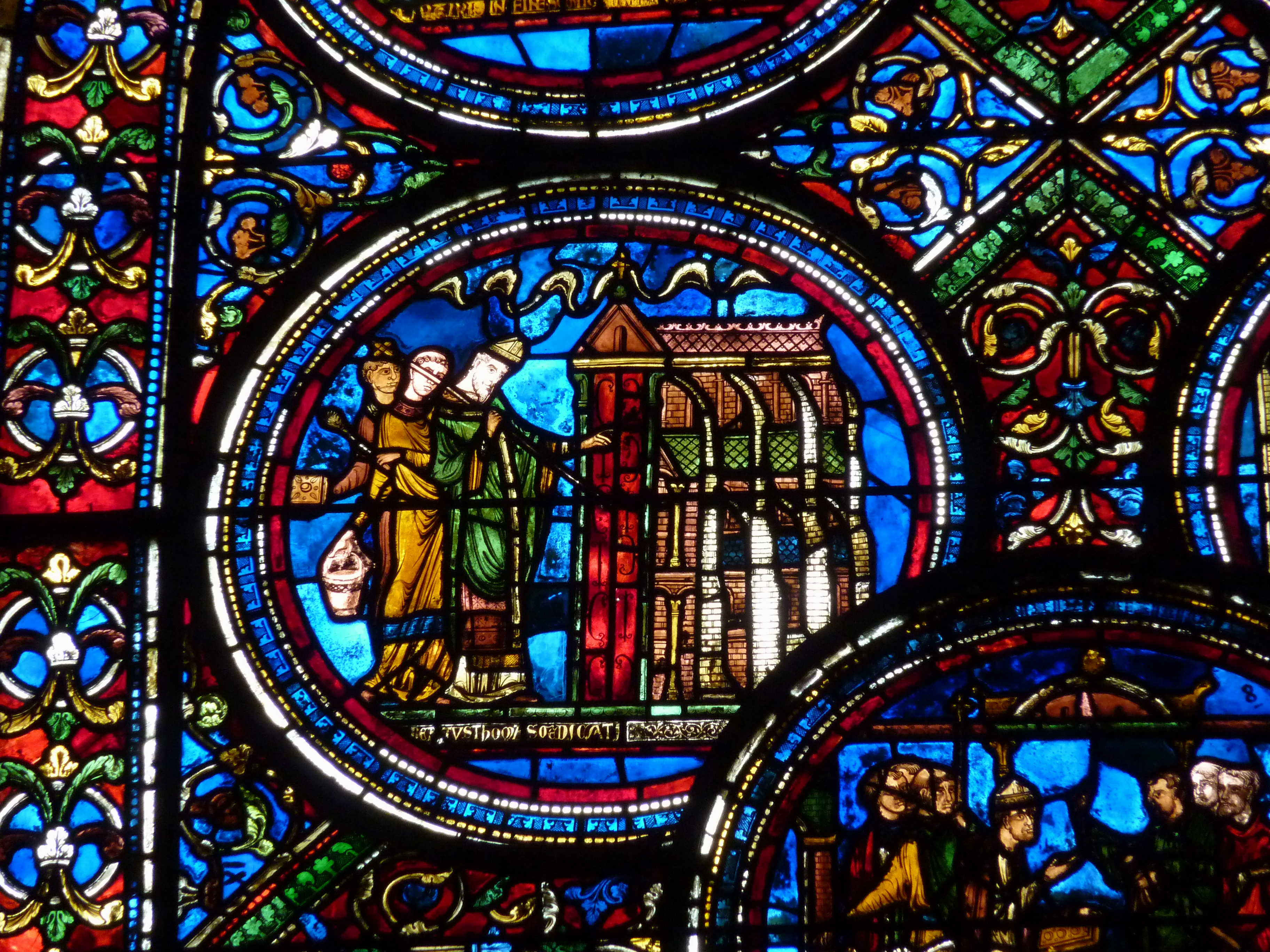 Sens Cathedral, Yonne; stained glass window (bay 23); early 13th century; Scenes from the Life of Saint Thomas Becket, His Meeting with Henry II and his Murder in Canterbury Cathedral - Thomas dedicates a church